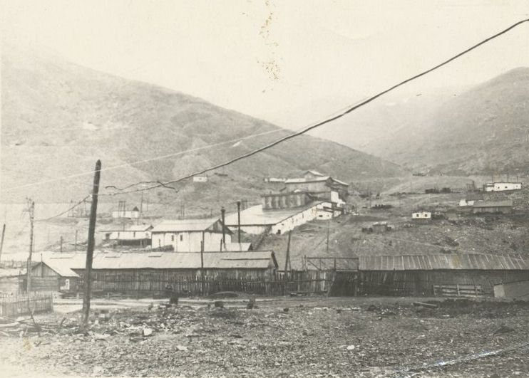 Metal foundry in Khenikandzha (Хениканджа), part of the Berlag in the Soviet Gulag system